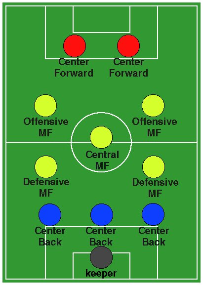 Soccer Formation 3-5-2N-BOX